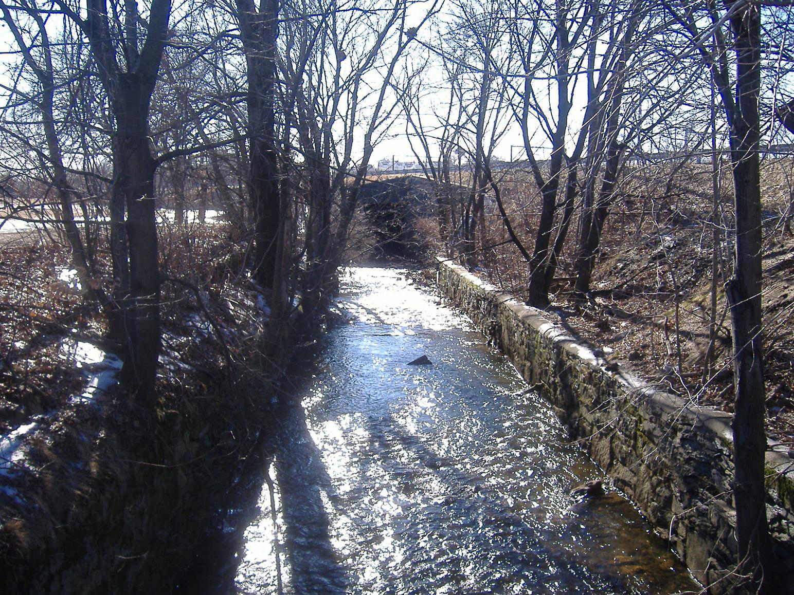 The Moshassuck River in Providence. Self-taken photo.